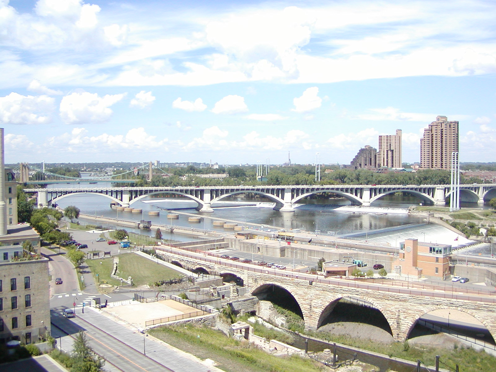 Photograph of the Mississippi River in Minneapolis as seen from the Guthrie Theater. Also visible are The Stone Arch Bridge, the Third Avenue Bridge and the Hennepin Avenue Bridge.